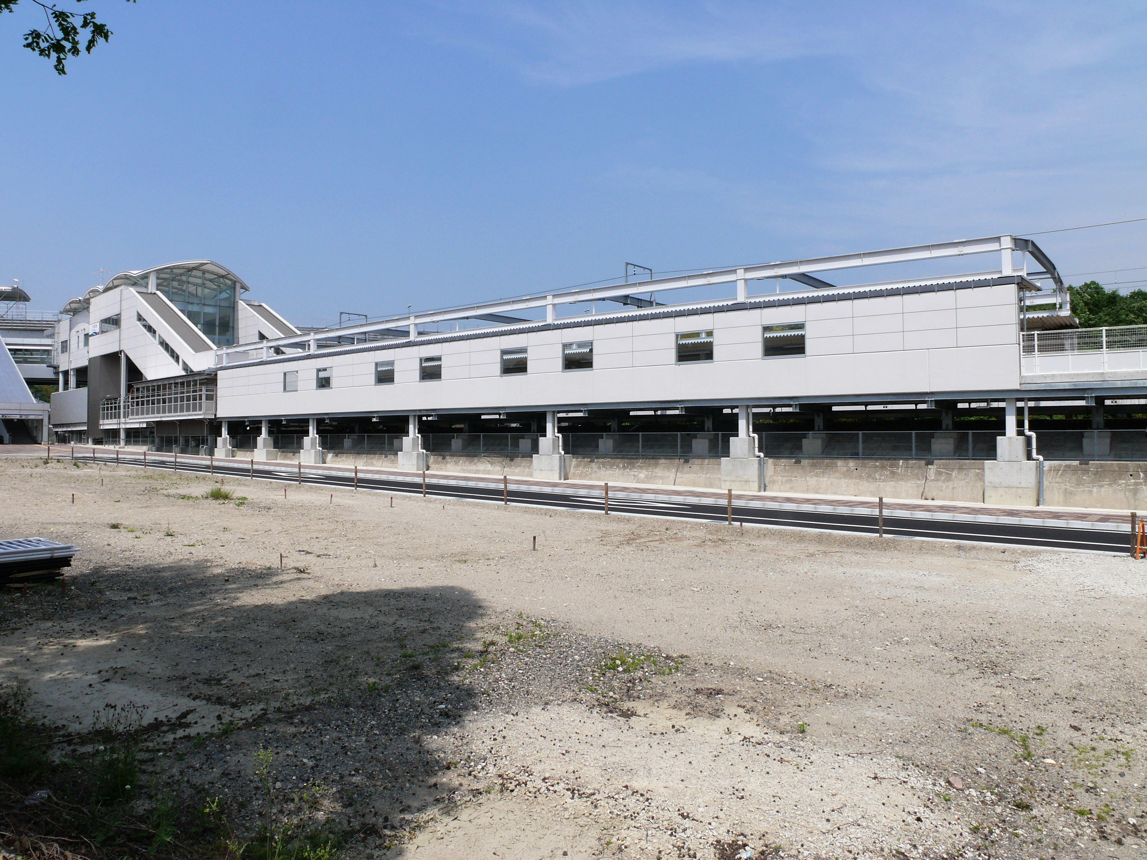 Aichi Kanjo Tetudo Line Yakusa Station.